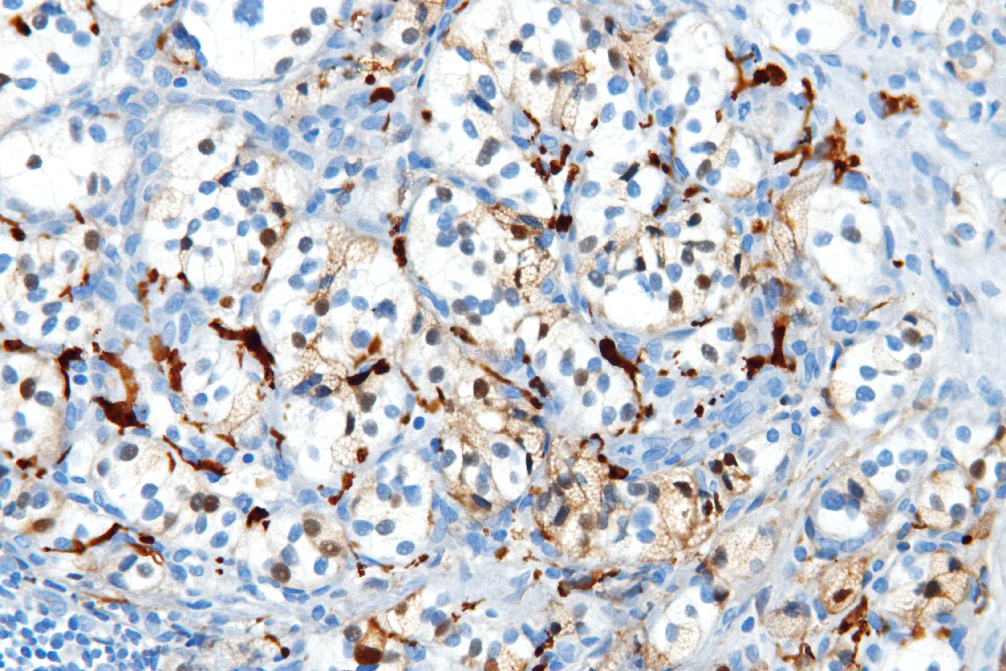 Very high magnification micrograph of a paraganglioma of the duodenum, also duodenal paraganglioma. S100 immunostain. Paragangliomas may be seen a number of syndromes - including: von Hippel-Lindau disease. Neurofibromatosis type I. Multiple endocrine neoplasia type 2a. Multiple endocrine neoplasia type 2b. Hereditary paragangliomatosis. The histomorphologic differential diagnosis of paraganglioma is: Metastatic renal cell carcinoma. Adrenal cortical rest. Related images Low mag. Intermed. mag. High mag. Very high mag. Intermed. mag. High mag. High mag. Very high mag.